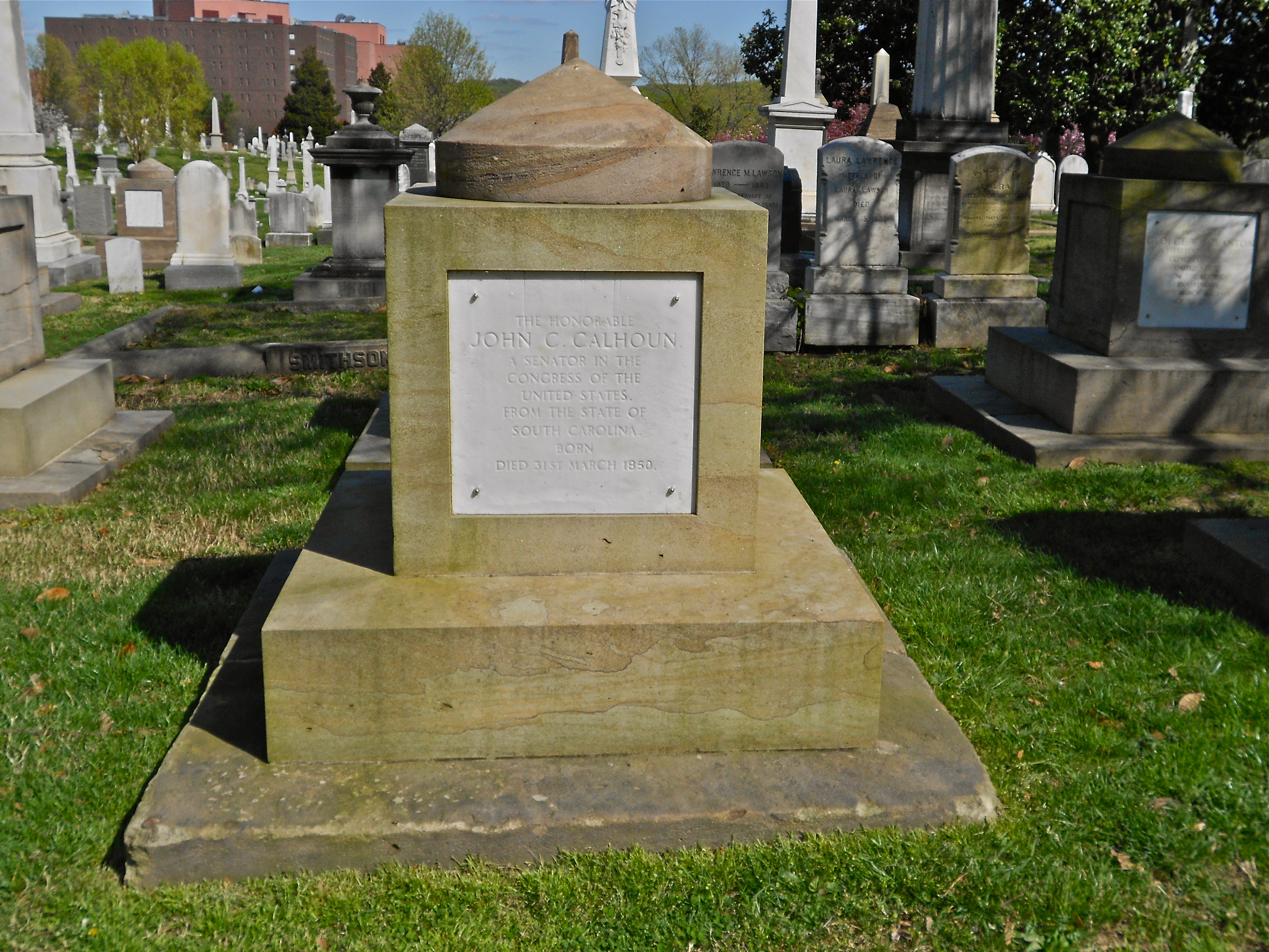 Cenotaph of John C. Calhoun at the Congressional Cemetery, Washington, DC (a National historic Landmark)